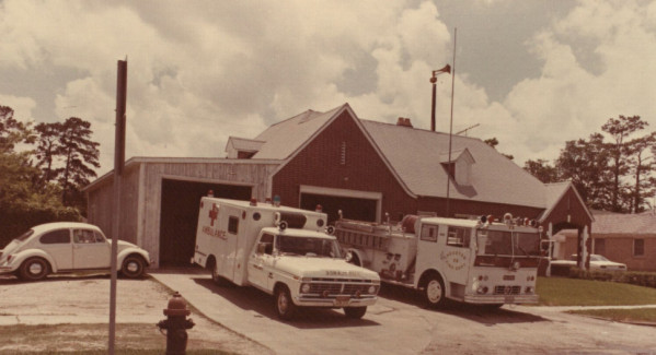 Houston Fire Department Station #25 in 1976